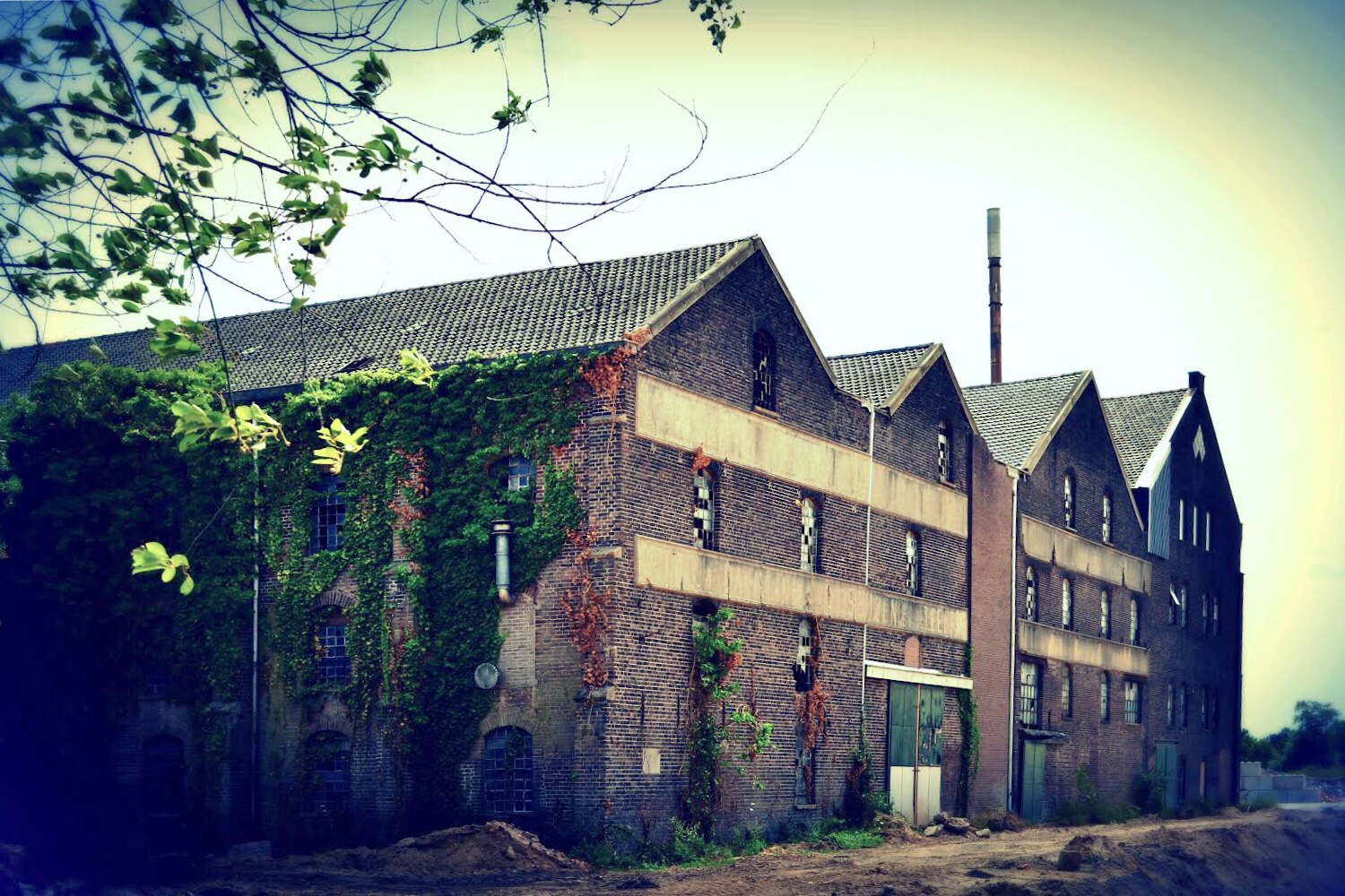 In de zomer van 2013 geeft de gemeente Beesel het startsein voor de sloop van Euroceramic aan de keulseweg te Offenbeek. Het laatste stuk klei-historie in Offenbeek verdwijnt uit het dorpsgezicht.